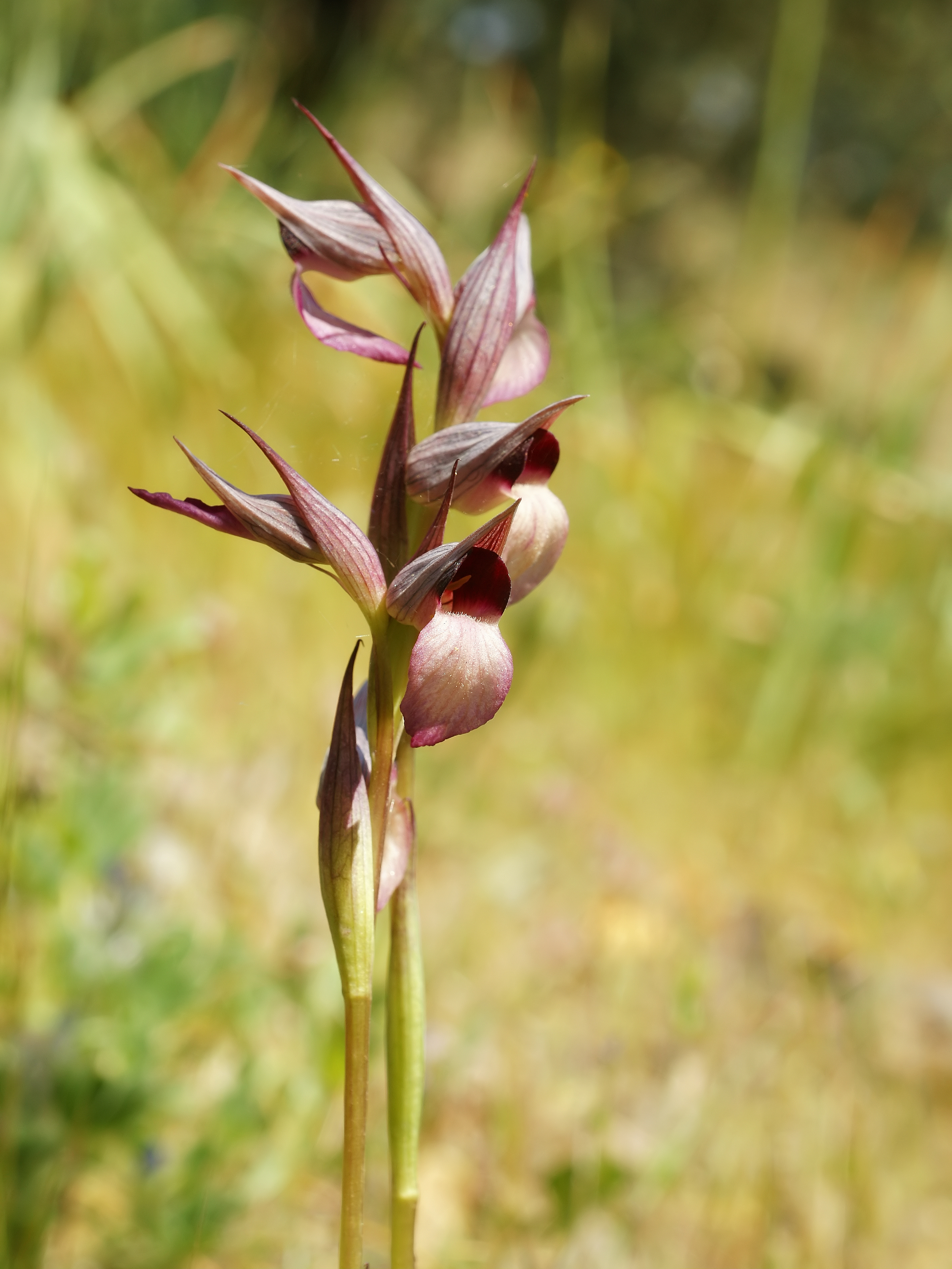 Tongue Orchid. Approximate co-ordinates: plant located within 5 km from Cantoniera sclamoris, Sardinia, Italy